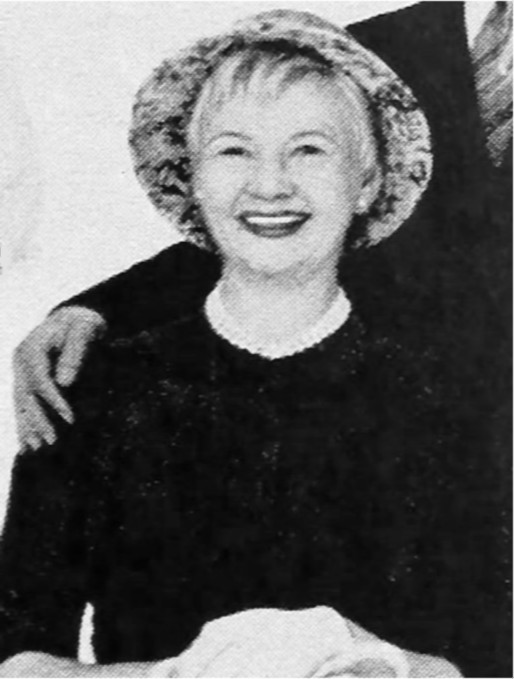 Photo of Pegeen Fitzgerald from a 1955 NBC ad in Broadcasting/Telecasting magazine. There are no copyright marks on the ad. Any copyright for Broadcasting Telecasting magazine would not apply to the advertising in it, but to editorial content only. NBC did not mark their ad as copyrighted. US Copyright Office page 3-magazines are collective works (PDF) "A notice for the collective work will not serve as the notice for advertisements inserted on behalf of persons other than the copyright owner of the collective work. These advertisements should each bear a separate notice in the name of the copyright owner of the advertisement."